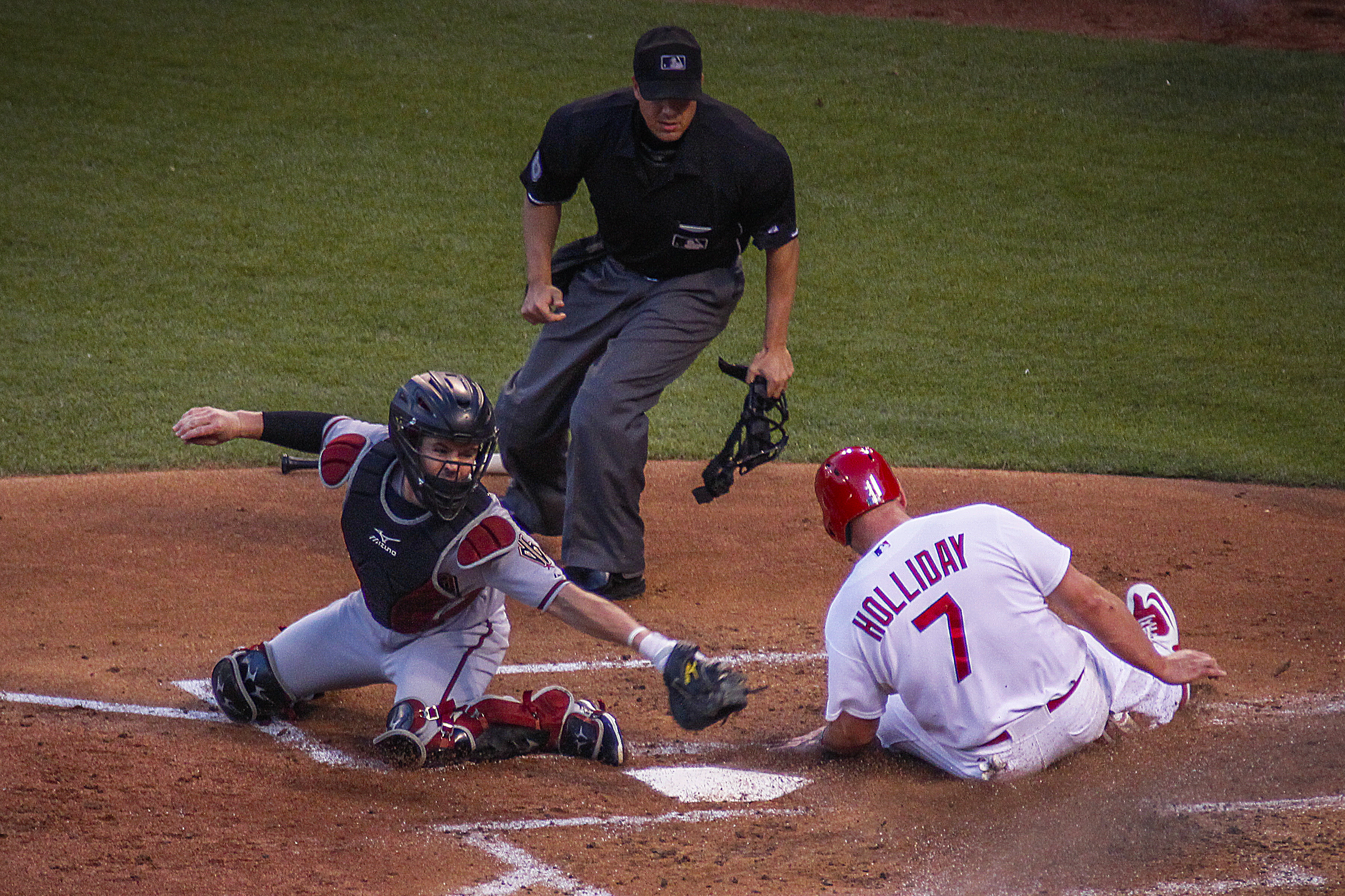 Matt Holliday slides home safe against the Diamondbacks, 2015.